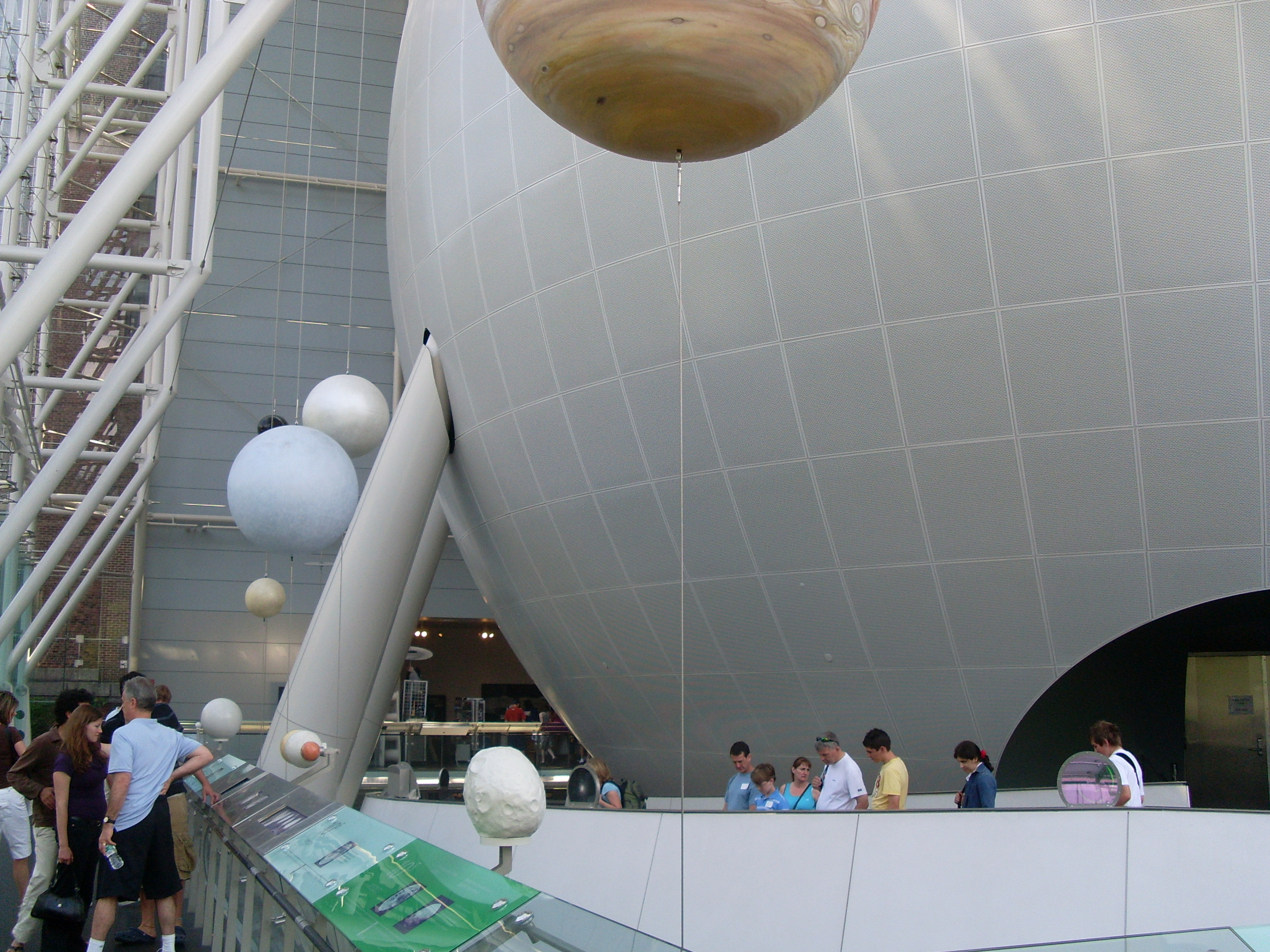 The Hayden Sphere in the Rose Center for Earth and Space, part of the American Museum of Natural History, the Cosmic Pathway and the Scales of the Universe exhibit.